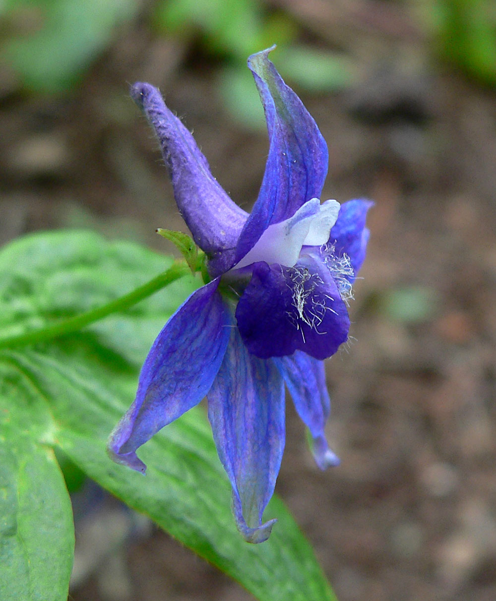 Photo of Delphinium bakeri at the Regional Parks Botanic Garden, Berkeley, California